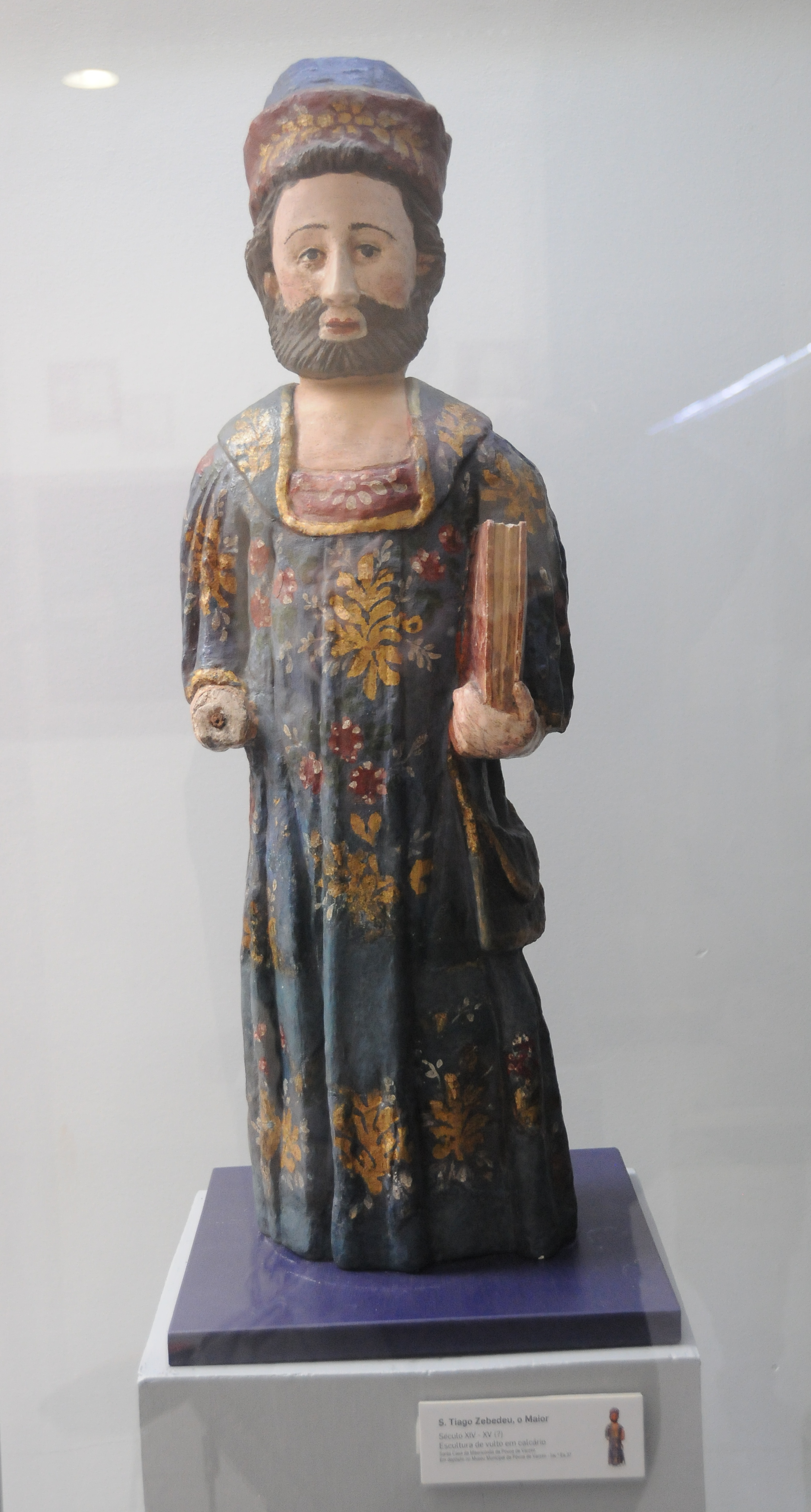 Museu Municipal de Etnografia e História da Póvoa de Varzim